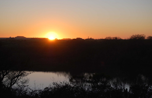 The sun sets over Antonelli Pond in the late afternoon on en:8 February 2008.